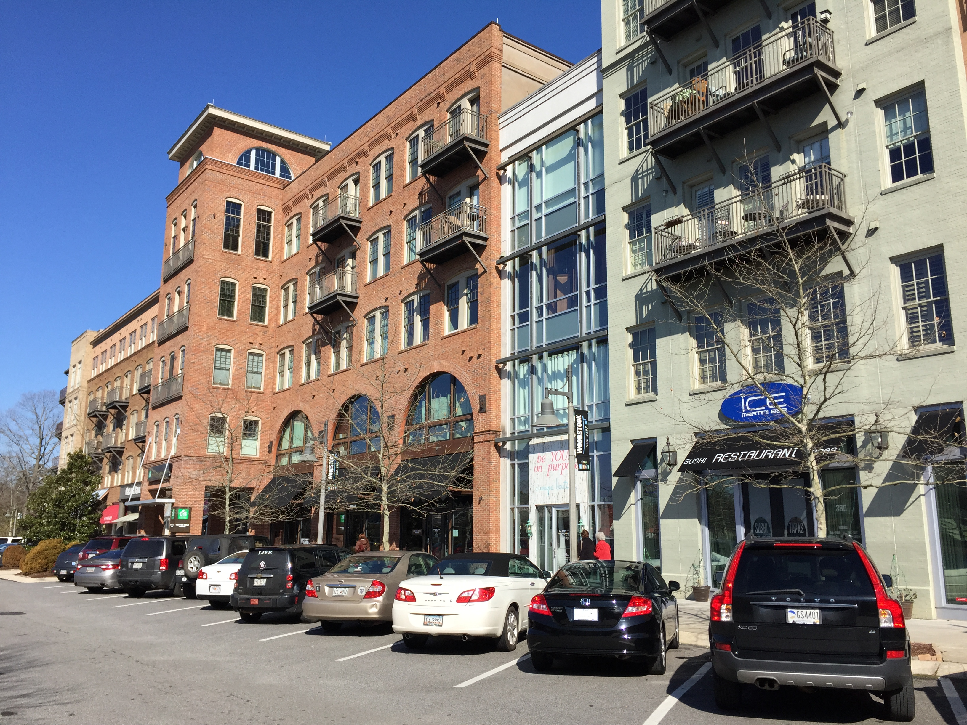 Downtown Woodstock, Georgia, 2015